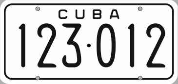 Cuba 1962-1974 license plate. Computer drawing.